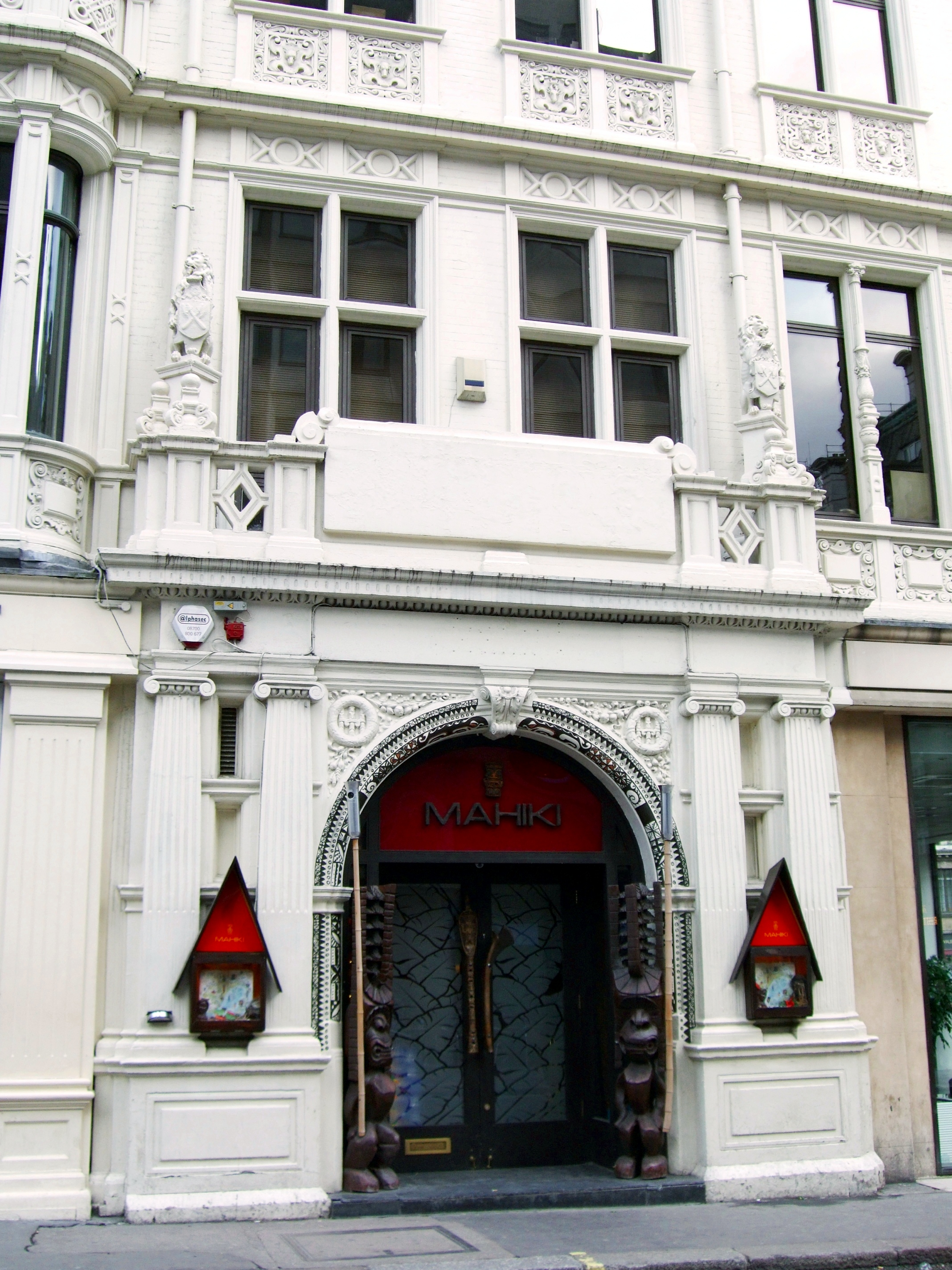 A Pacific-themed club and restaurant very near Green Park station. Address: 1 Dover Street. Former Name(s): Capisce; Nell's; Pitcher and Piano. Owner: Brompton Brands (website and Brompton website); NHE Group (former). Links: Qype